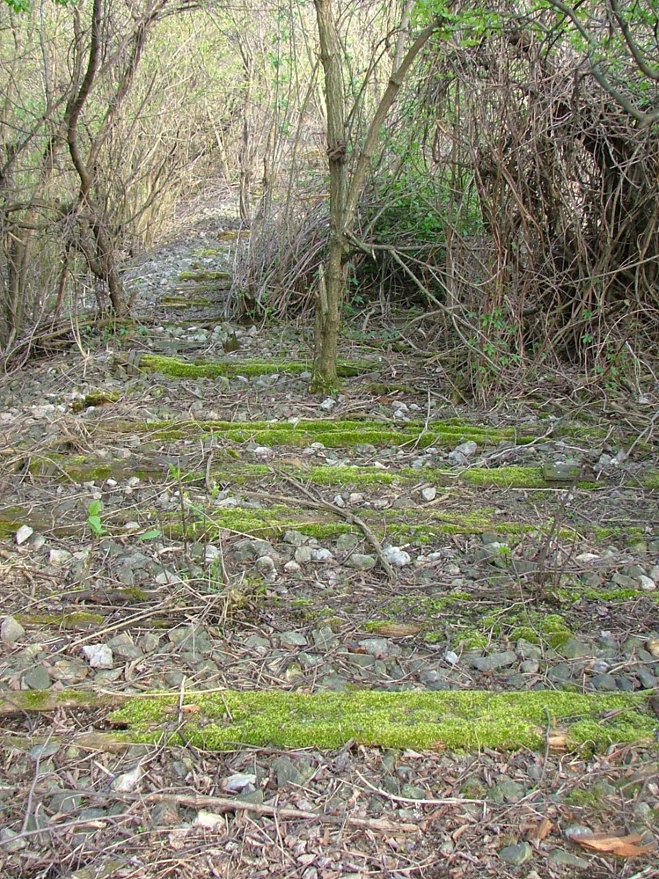 Remains of the old (1914-1945) Bratislava-Vienna electric railway embankment. Seen on 31 March 2007 at the Slovak side of the Petržalka/Berg border checkpoint.